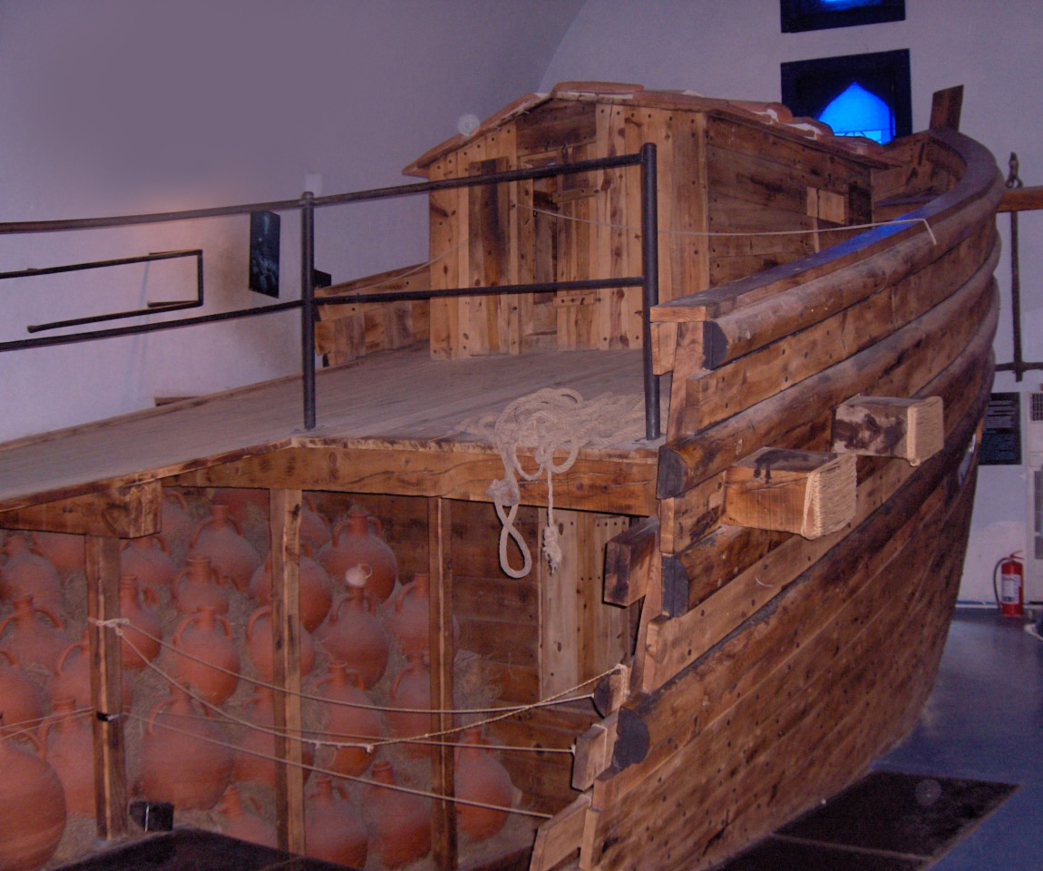 (partial) reconstruction of the Yassiada shipwreck from Byzantine times (7th c.), St. Peter's castle; Bodrum, Turkey